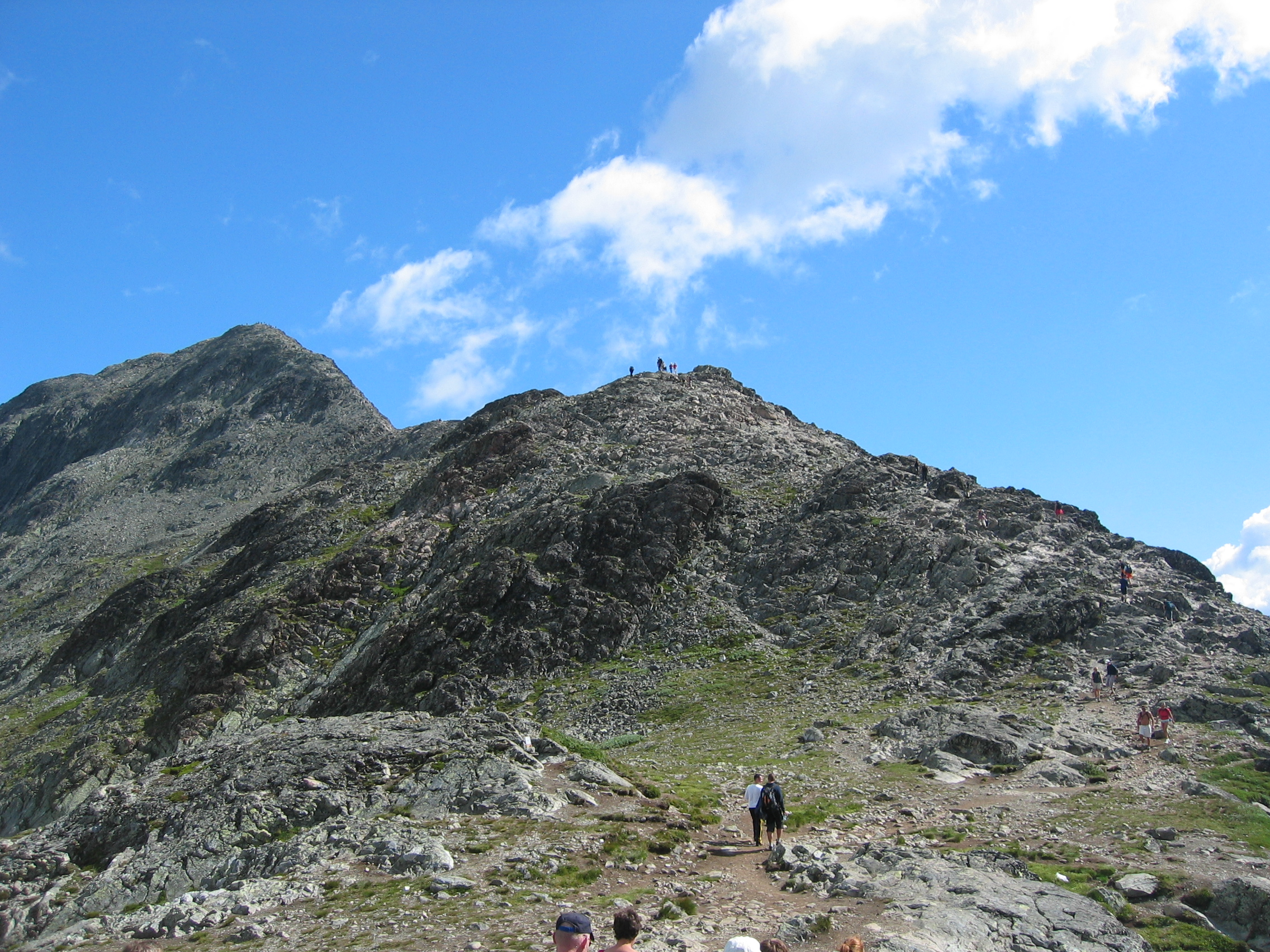 Besseggen, one of the famous mountains of Jotunheimen, with walkers.